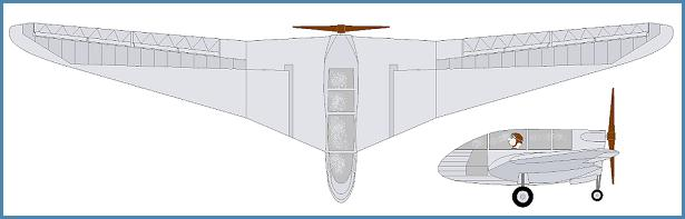 Herrmann Koehl/Loessel Flying Wing 1933